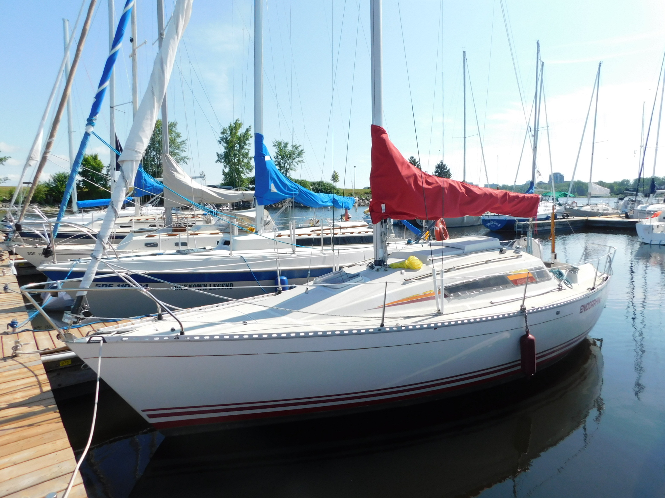 A Beneteau First 26 sailboat named Endorphin.